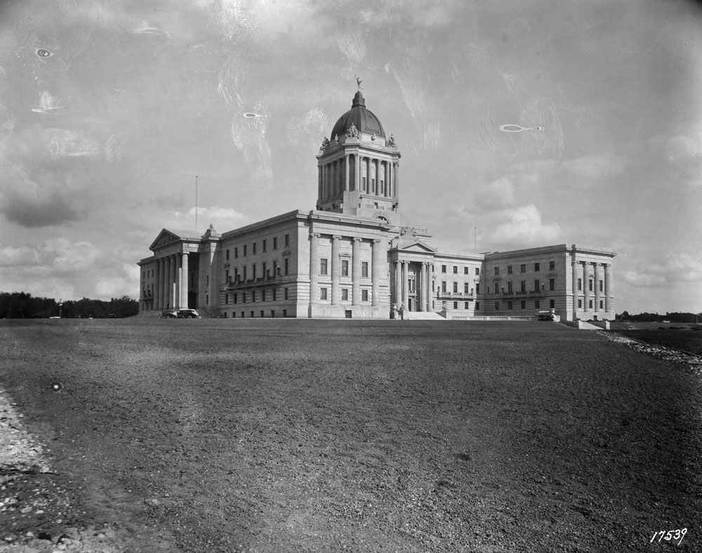 Winnipeg - Legislative Bldgs